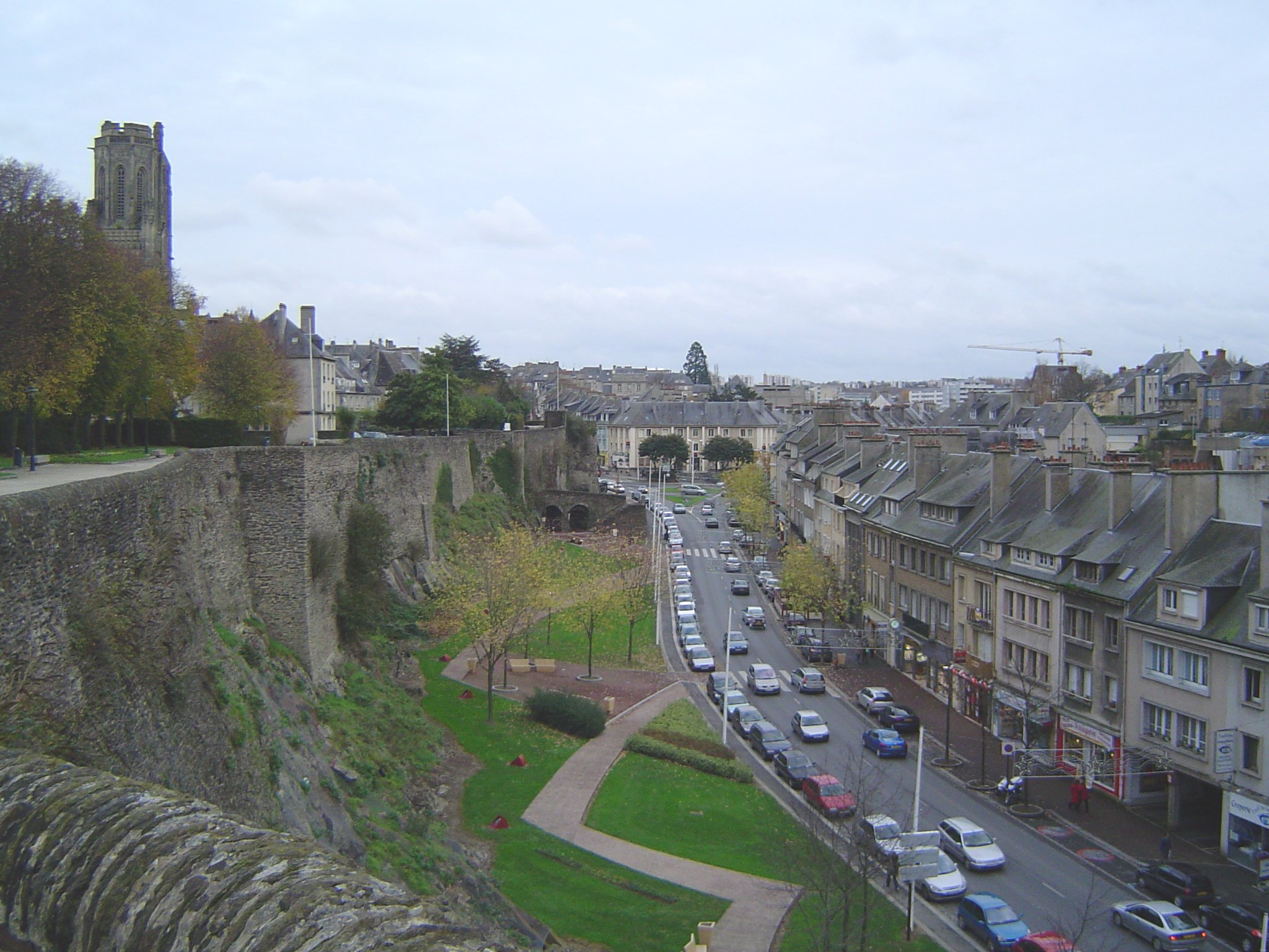 Remparts of Saint-Lô